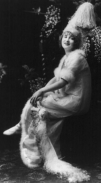 French actress and singer Gaby Deslys (1881-1920)